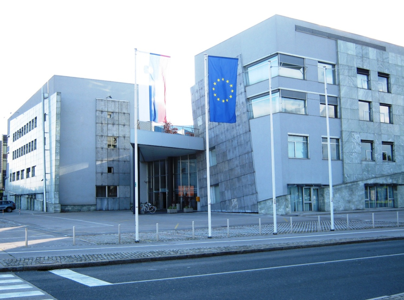 Heaquater of Financial Administration of Republic of Slovenia